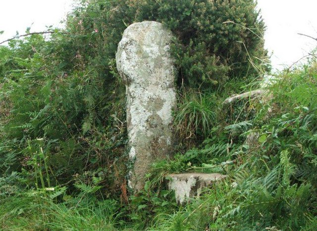 Brane Cross This cross stands beside a stile on the ancient churchway between the hamlet of Brane and Sancreed.